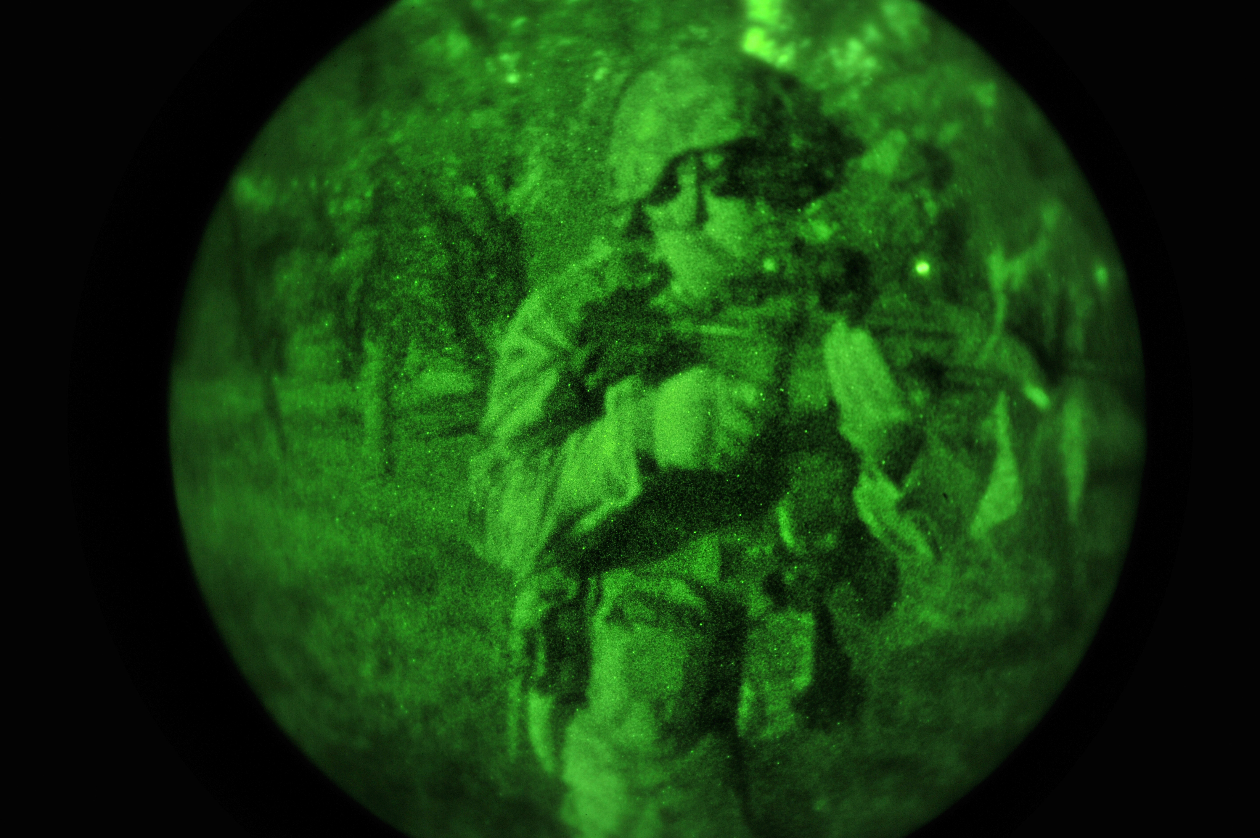 The 91st Missile Security Forces Squadron conducts night operational and tactical training to provide constant security and control for the assets of the 91st Missile Wing at Minot Air Force Base, N.D., Aug. 15, 2012. The 91st MSFS ensures their members are trained, organized and equipped to secure 150 Minuteman III missiles and launch facilities and 15 missile alert facilities geographically separated throughout 8,500 square miles of the missile complex 24 hours a day. The training consisted of night time security support, including anti-terrorism, physical security measures and response forces.